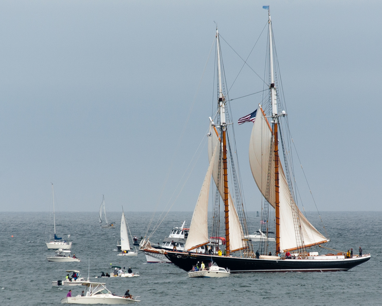 Columbia in the Tall Ships parade into Portland harbor